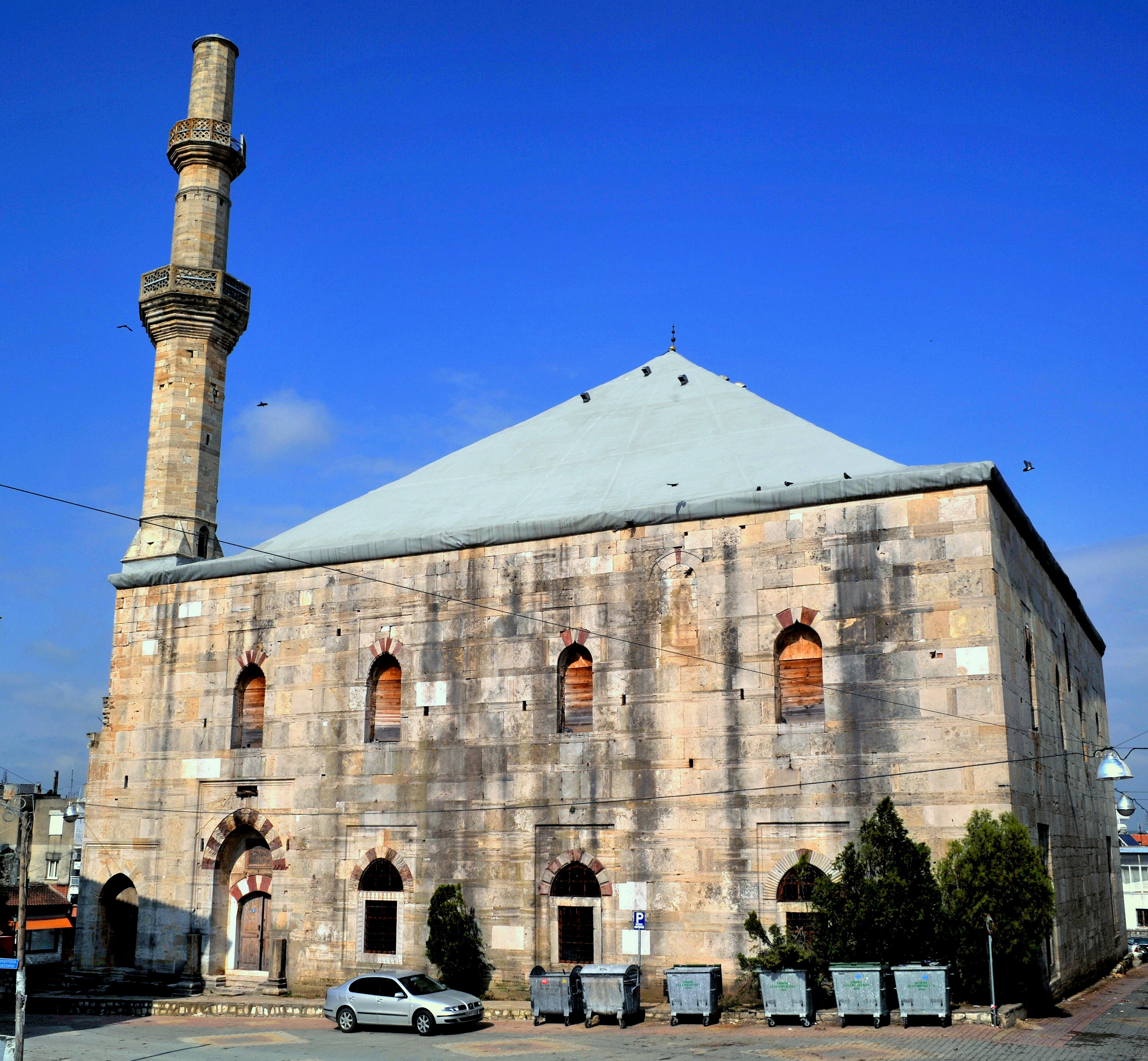 Bayezid (Mehmed I) Mosque, Didymoteicho, Evros, Greece.